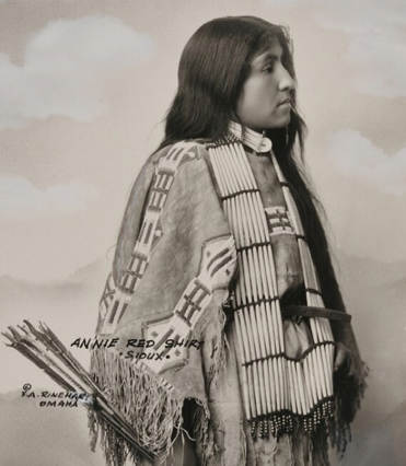 Annie Red Shirt, "Sioux",Trans-Mississippi and International Exposition, Omaha, Nebraska, 1898. Cropped. Other information No.